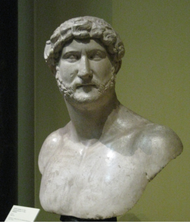 Emperor Hadrianus. Plaster cast in Pushkin museum after original in British museum